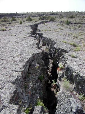 A fissure in the lava plain at Hell's Half Acre Lava Field in Idaho in the United States.